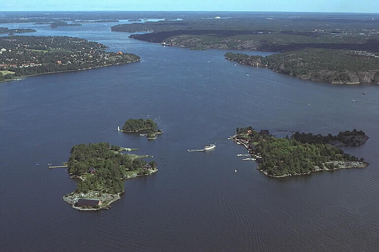 The Fjäderholmarna islands (mouse-over photo for names) with the Stockholm archipelago and Baltic sea in the background.